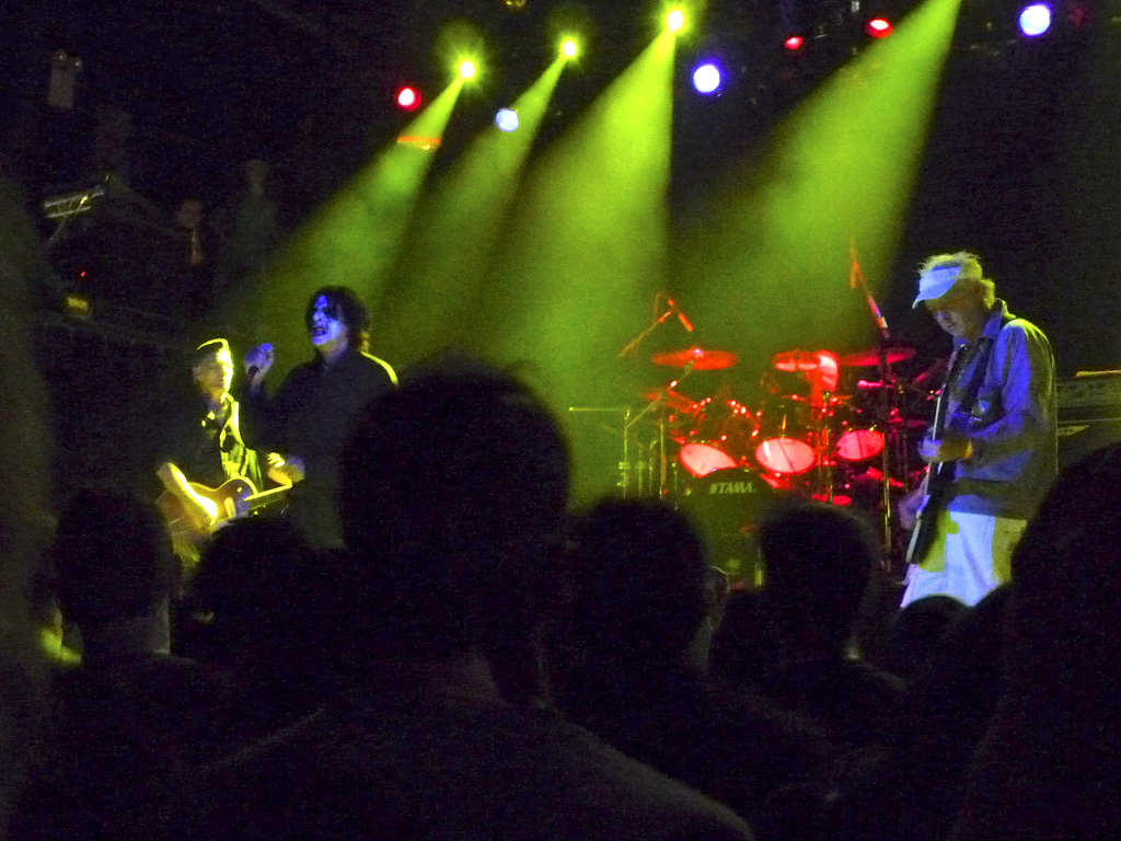 Killing Joke at The Fillmore. New York City, U.S. October 12th 2008